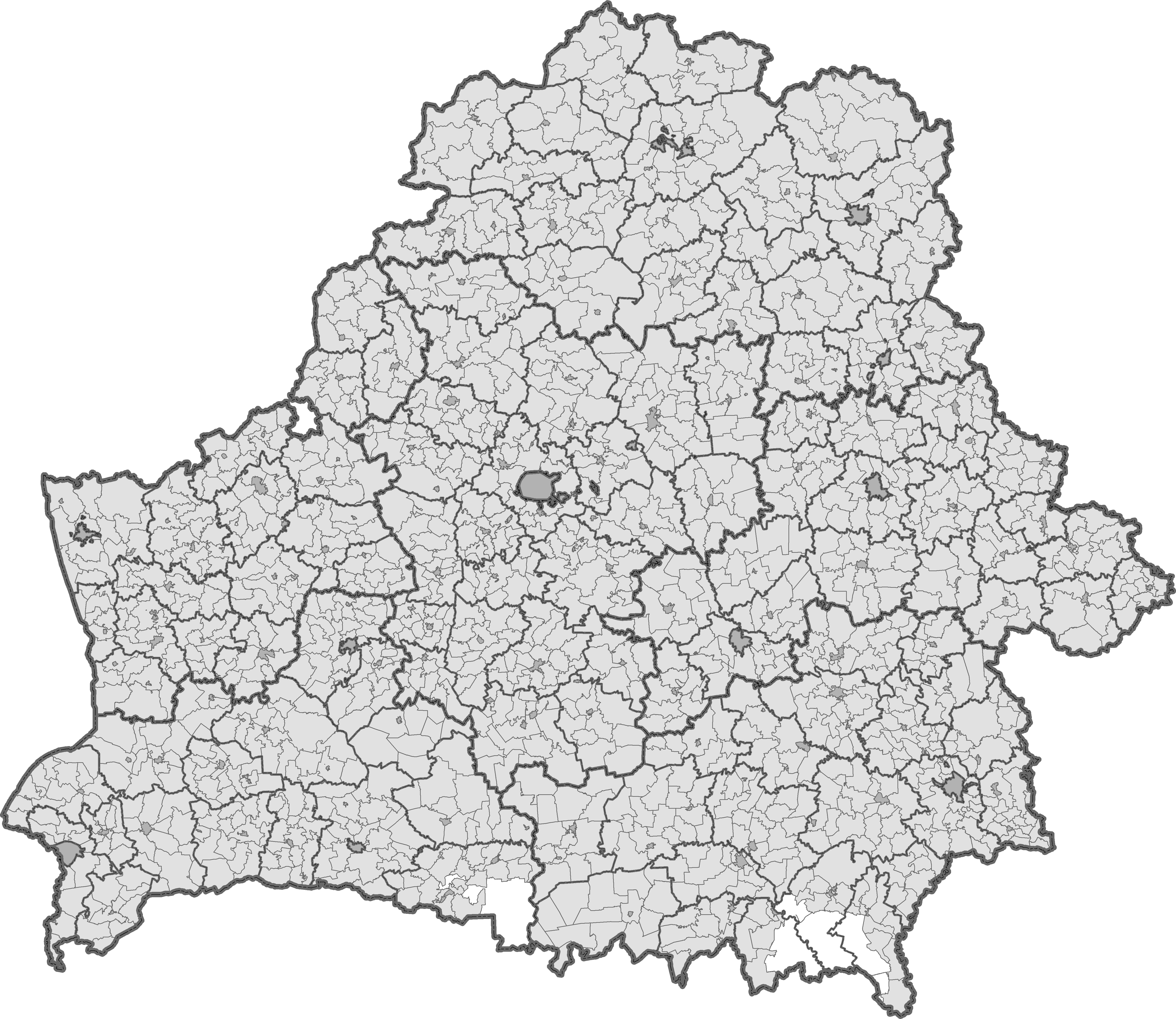 Administrative map of the Republic of Belarus with divisions of the 1st, the 2nd and the 3rd levels as of October 14, 2009 (census)